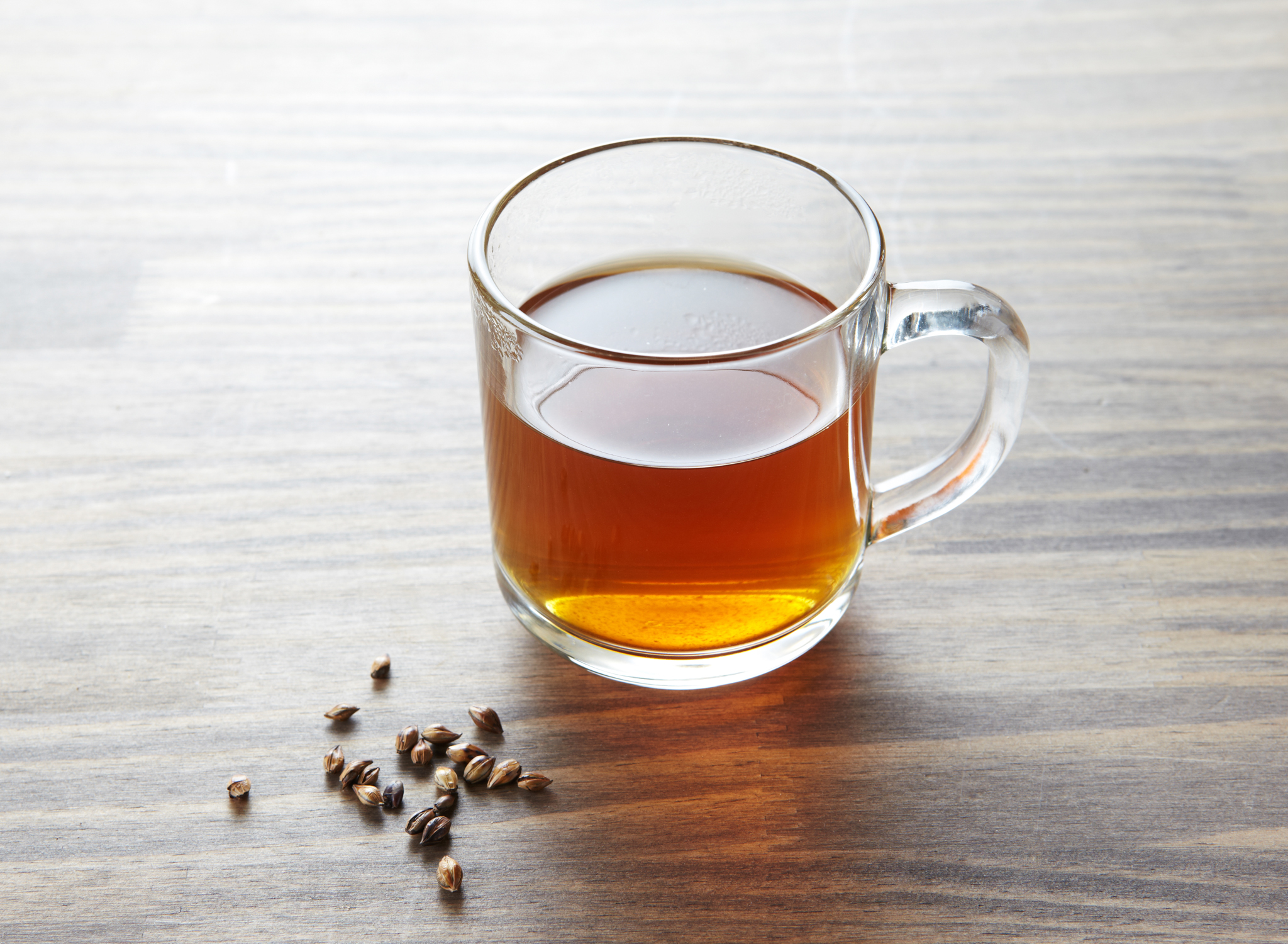 Boricha (barley tea)